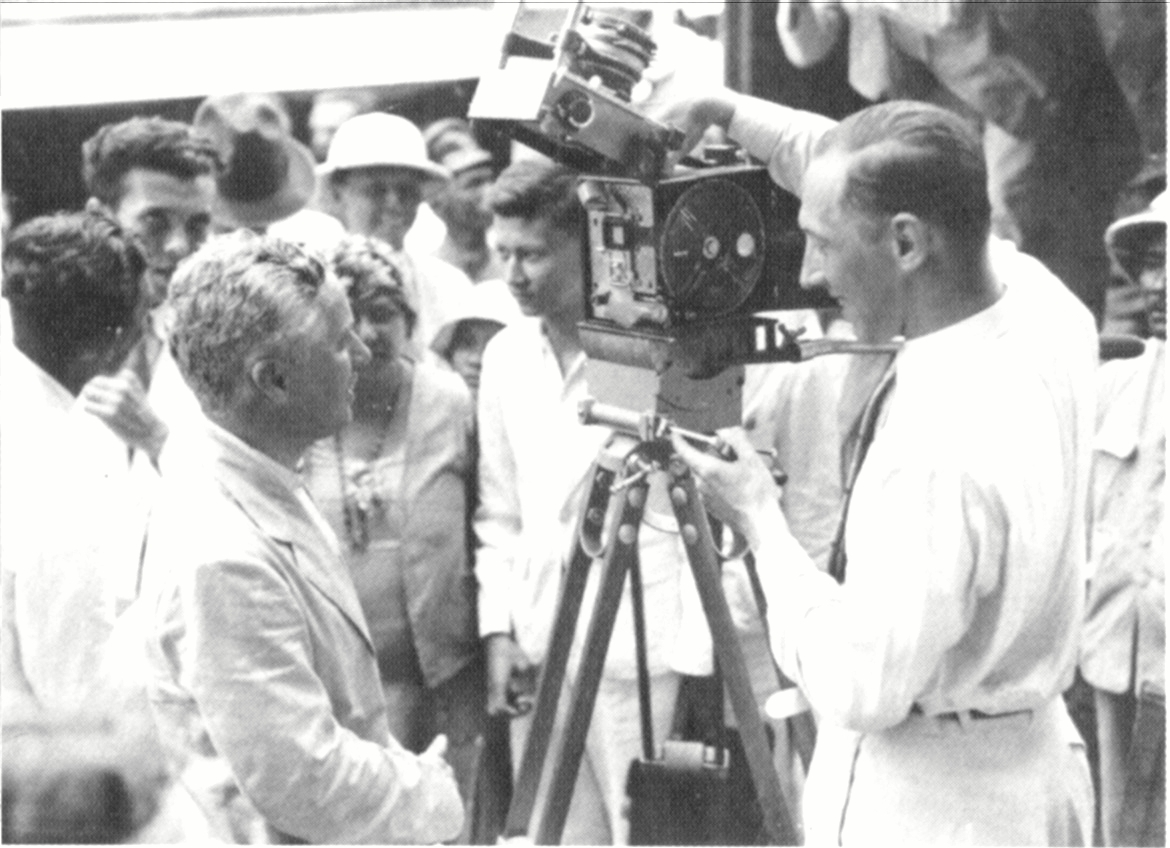 Charlie Chaplin admiring Henk Alsem's (Dutch Wikipedia, early Dutch cinematographer) 35 mm cine camera at Tanjung Priok Wharf…soon after Mr Chaplin arrived at the Batavia (later Jakarta) docks. Charlie Chaplin had his own 16 mm cine camera.